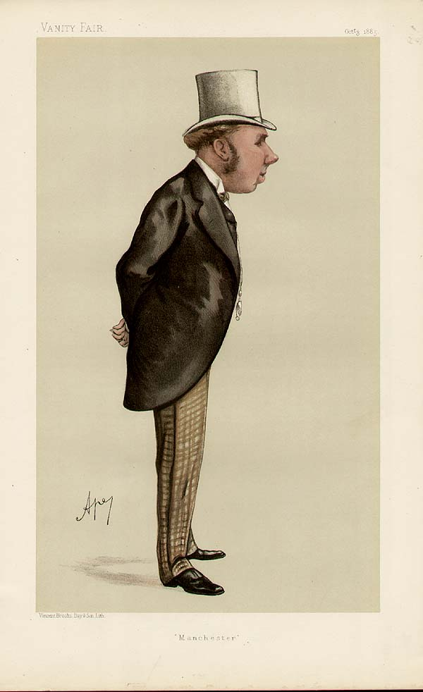 Statesmen No.474: Caricature of Mr WH Houldsworth MP. Caption reads: "Manchester"